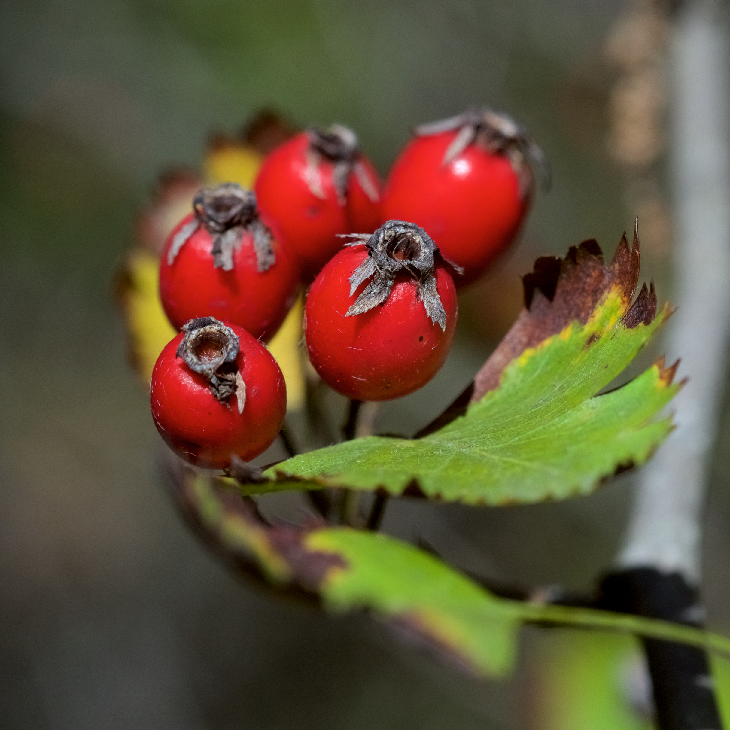 Species from Southeastern North America Common name: Parsley Hawthorn Photographed in Boyle Park, Little Rock, Pulaski County, Arkansas